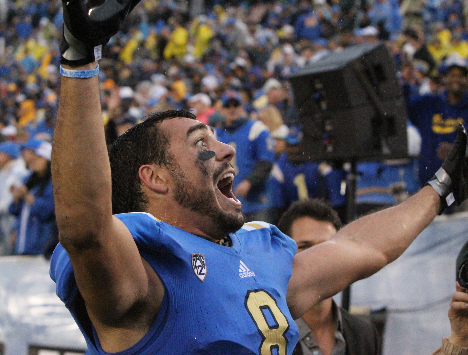 Photos from UCLA's 38-28 victory over the USC Trojans at the Rose Bowl on Nov. 17, 2012. (James Santelli/Neon Tommy)